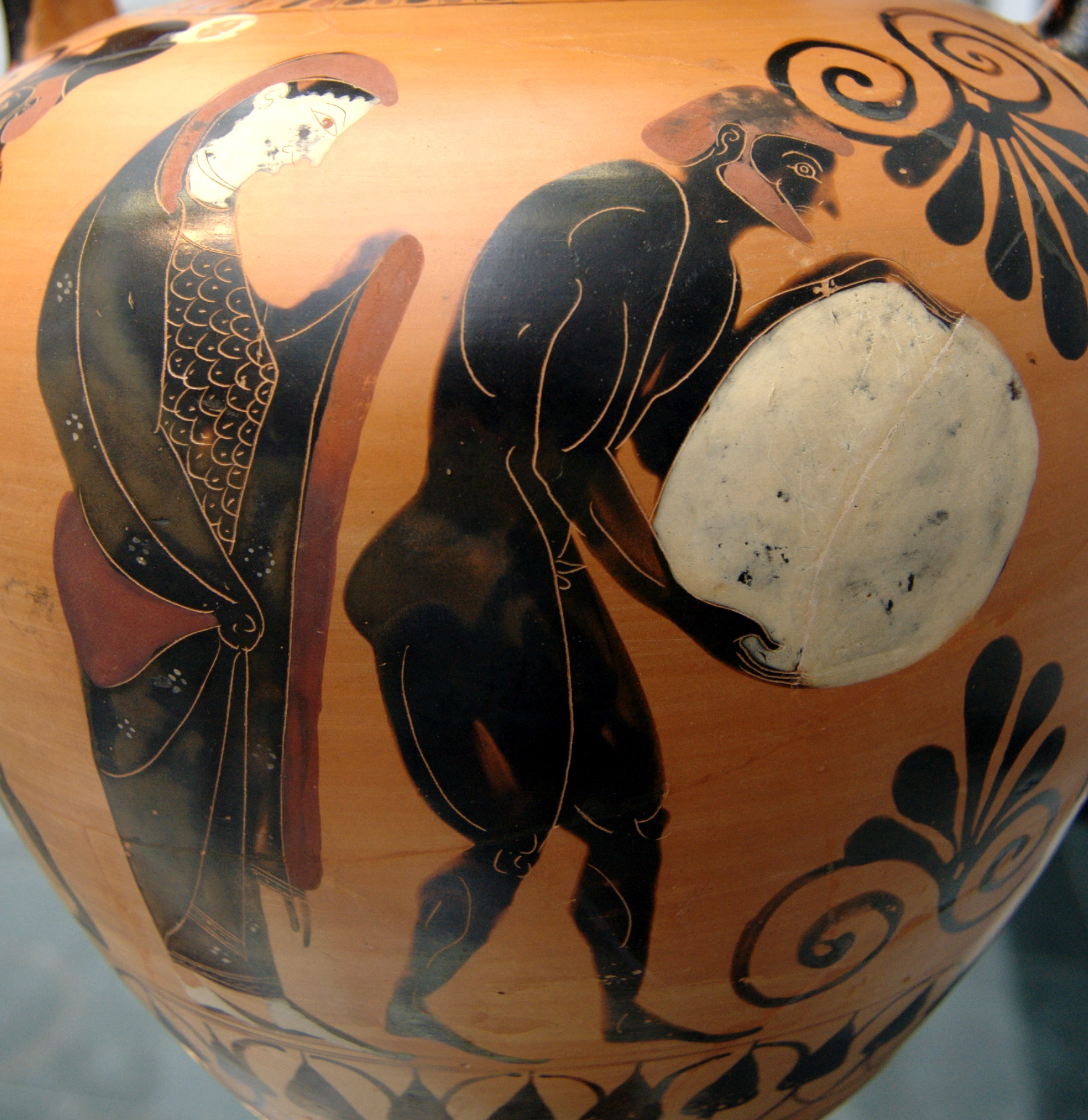 Nekyia: Persephone supervising Sisyphus pushing his rock in the Underworld. Side A of an Attic black-figure amphora, ca. 530 BC. From Vulci.